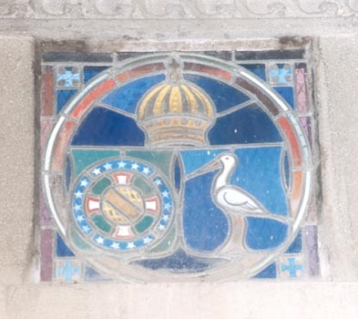 Détail du vitrail of the cathédrale of Petrópolis (Brésil) représentant l'union dynastique of the famille impériale du Brésil avec celle des comtes de Dobrzensky von Dobrzenicz. c'est-à-dire le mariage of D. Pedro Alcântara, prince of Grão-Pará (de jure, empereur D. Pedro III du Brésil) and Elisabeth Dobrzensky de Dobrzenicz.